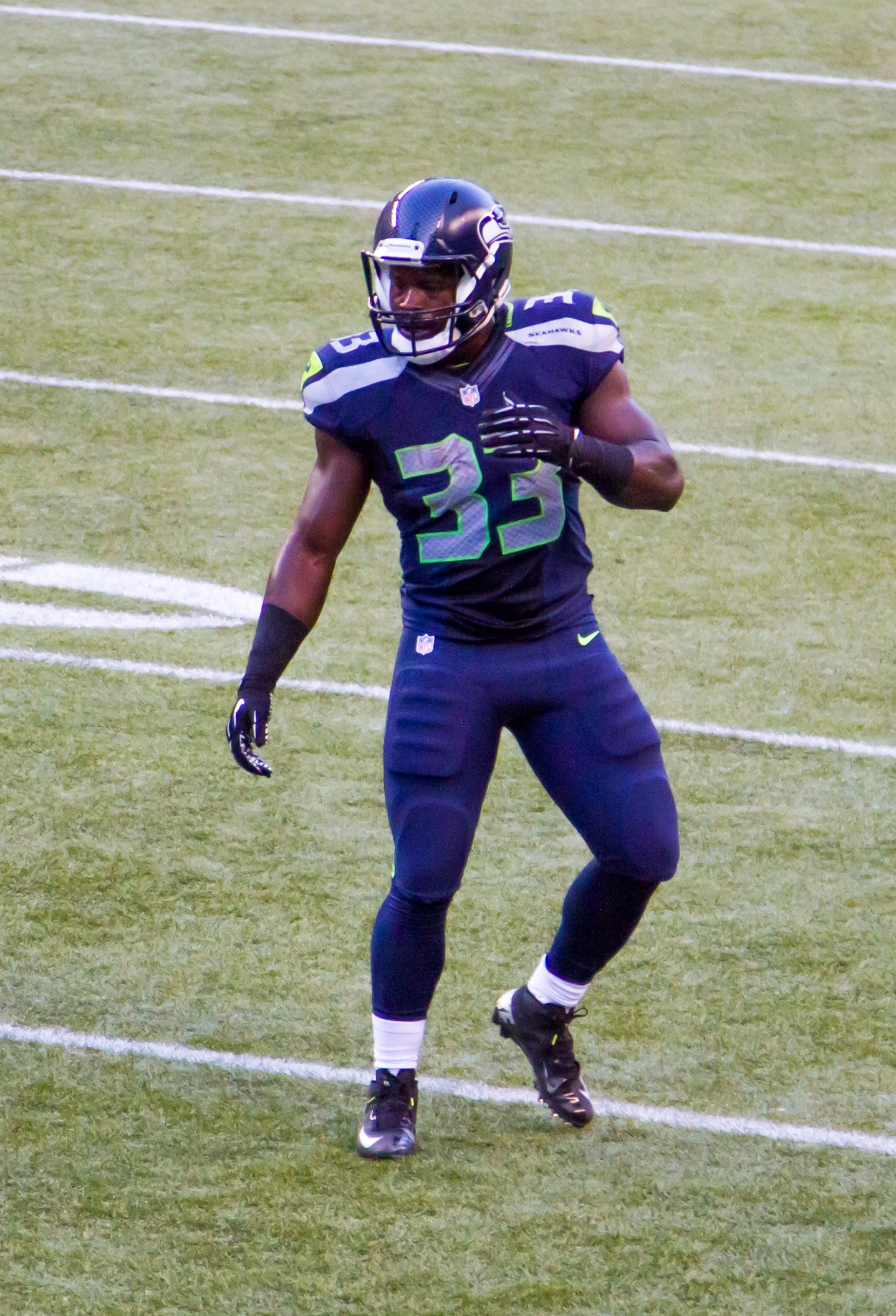 Christine Michael in 2014 preseason.